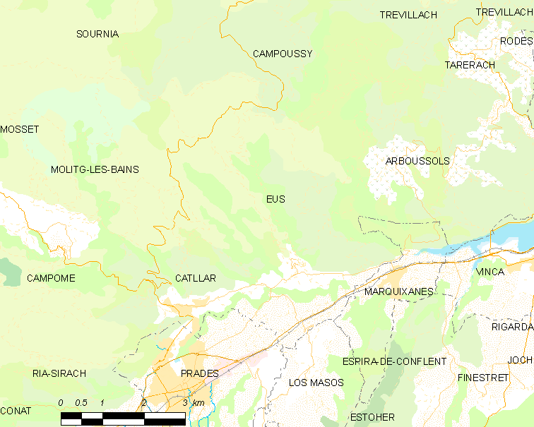 Map of French municipality